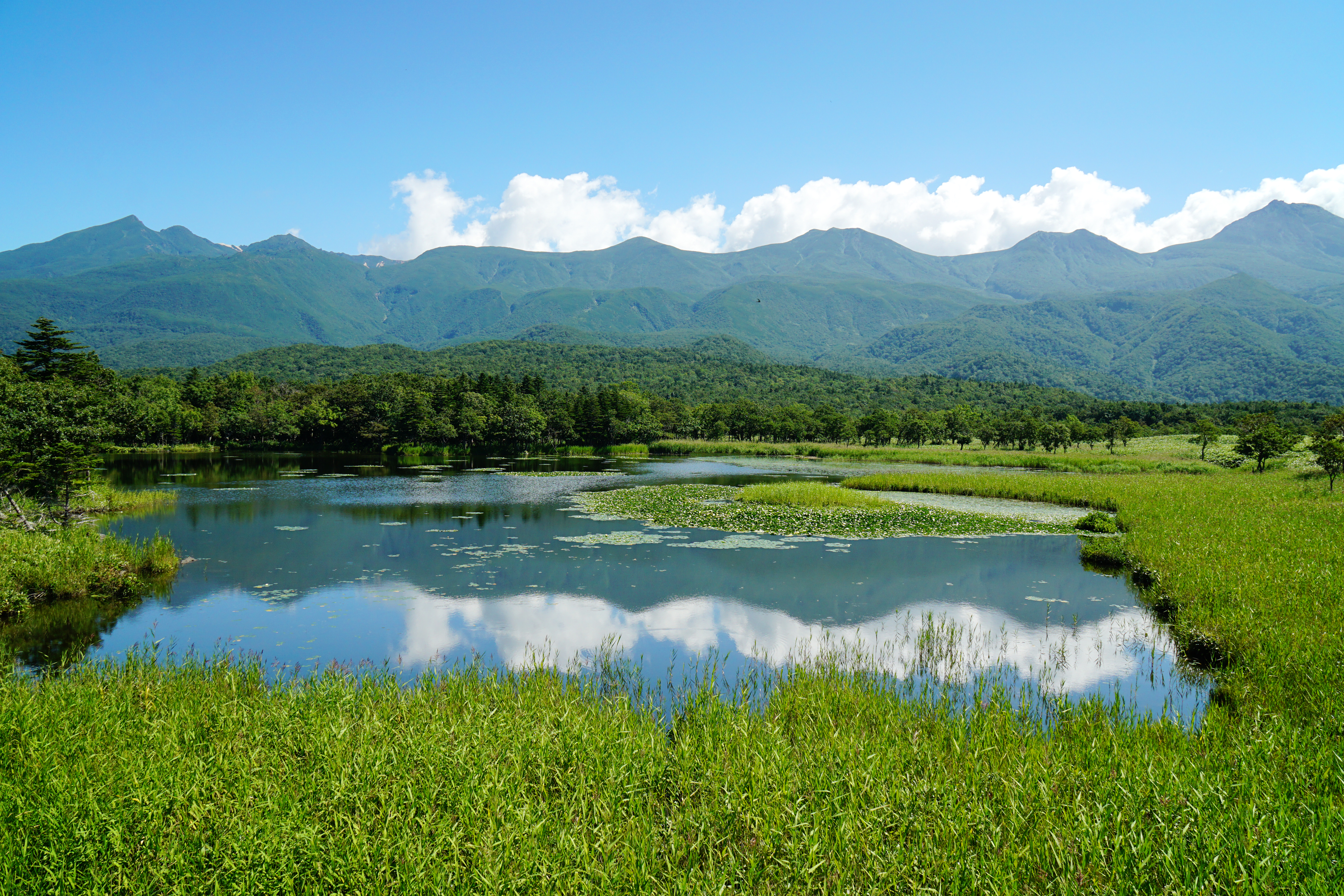 Lake Ichiko of Shiretoko Goko Lakes in Shari, Hokkaido prefecture, Japan.